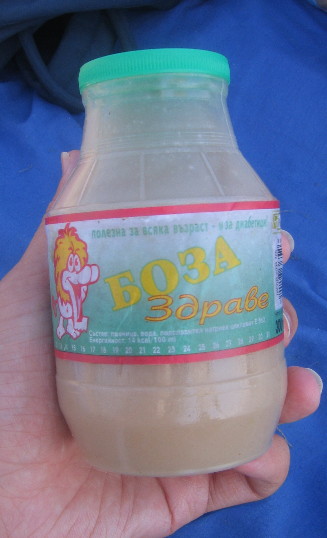 A bottle of Bulgarian Boza